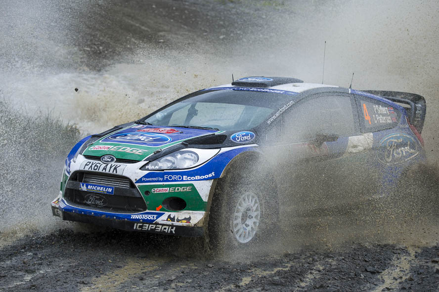 Wales Rally Great Britain 2012 Chris Patterson,Ford Fiesta RS WRC,Ford WRT,Ford World Rally Team,Hafren Sweet Lamb 2,Motorsport,Petter Solberg,Rally,Rallye,SS5,WP5,WRC,Wales Rally GB